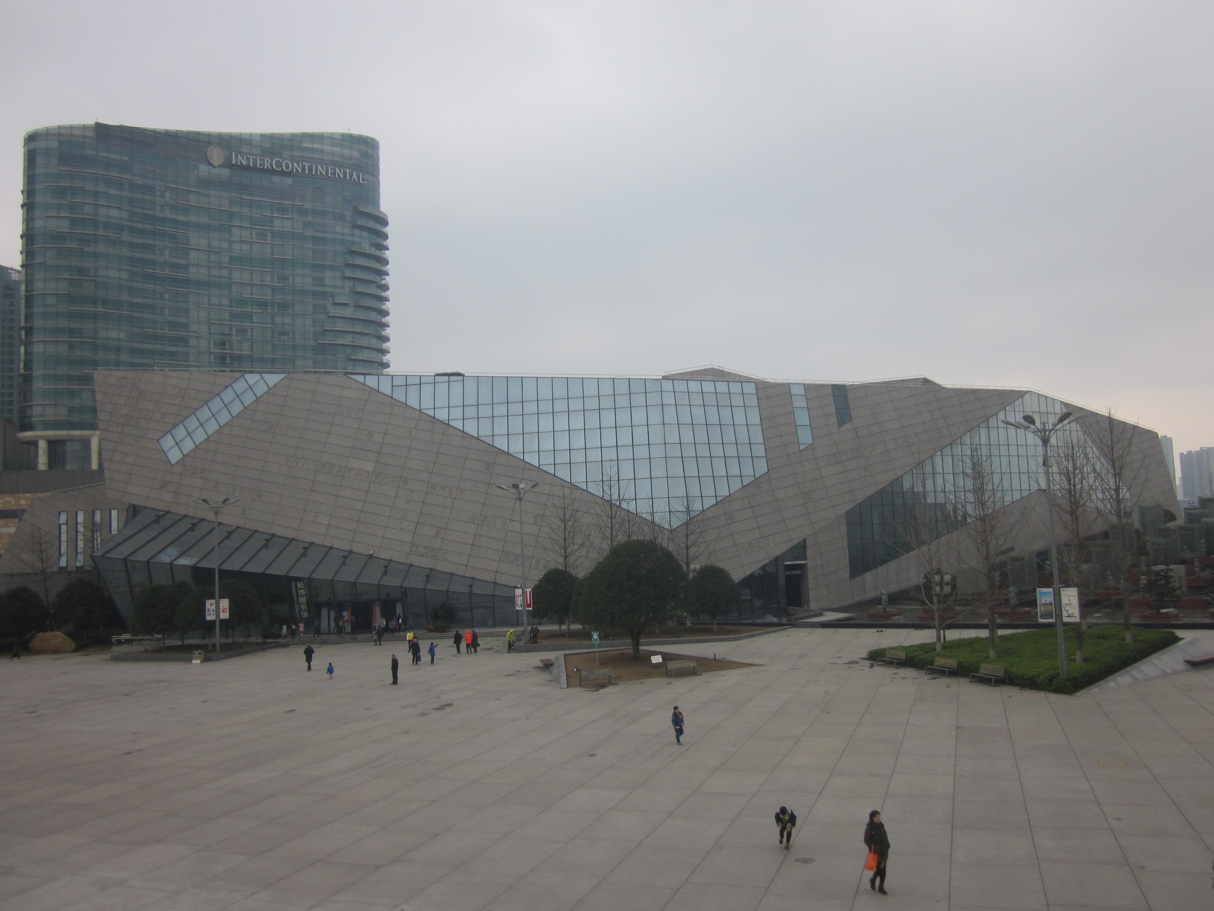 A far view of Changsha Library.